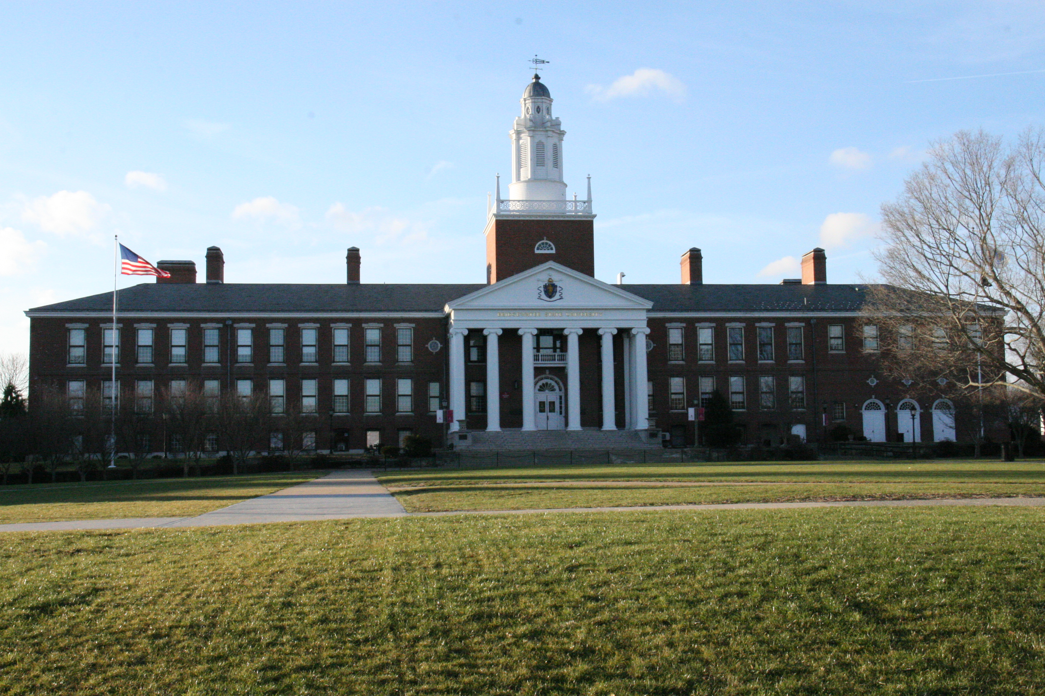 Bridgewater University 131 Summer St. Bridgewater Ma.